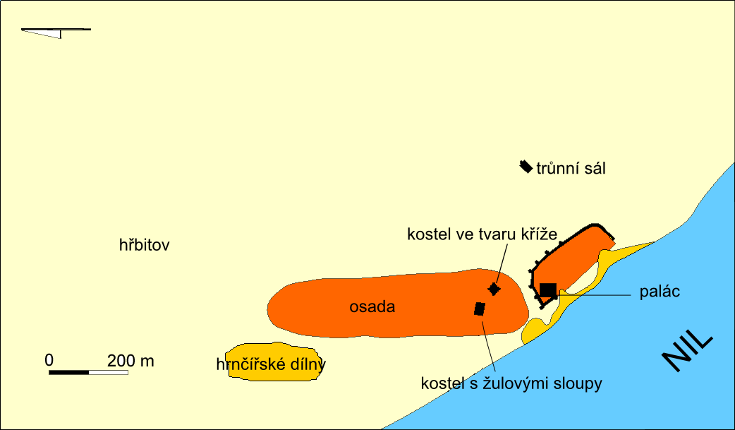 Plan of Old Dongola (Nubia)